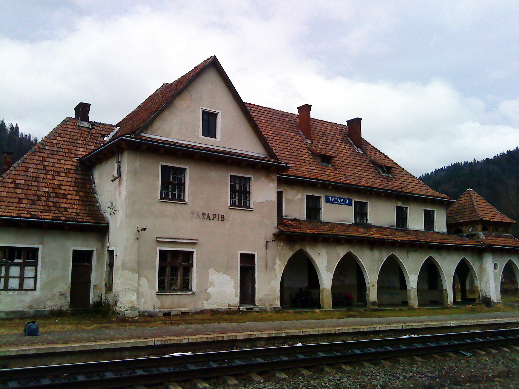 Railway Station, village Tatarov.